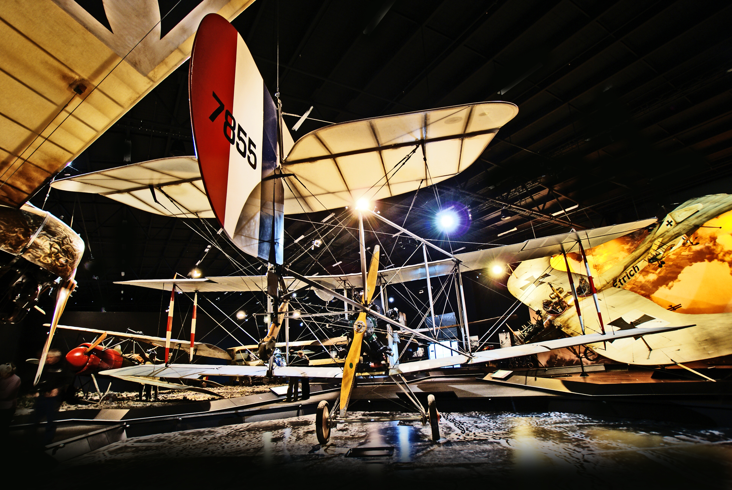 The Airco DH.2 was a single-seat biplane "pusher" aircraft which operated as a fighter during the First World War. It was the second pusher design by Geoffrey de Havilland for Airco, based on his earlier DH.1 two-seater. The DH.2 was the first effectively armed British single-seat fighter and enabled Royal Flying Corps (RFC) pilots to counter the "Fokker Scourge" that had given the Germans the advantage in the air in late 1915. Until the British developed a synchronisation gear to match the German system, pushers such as the DH.2 and the F.E.2b carried the burden of fighting and escort duties.